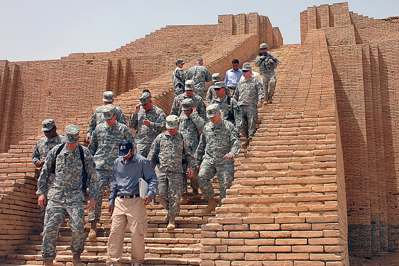 U.S. Army Brig. Gen. Michael Lally, left front, and Col. Dan Hokanson, behind Lally, lead Soldiers down steps of the Ziggurat of Ur during a tour outside Camp Adder, Iraq, July 31, 2009. The Ziggurat, one of the greatest historical monuments of ancient civilization, had been part of Camp Adder, but was recently returned to Iraqi control. Lally is commander of the 3rd Expeditionary Sustainment Command and Hokanson is commander of the 41st Infantry Brigade Combat Team. U.S. Army photo by Spc. Cory Grogan See more at